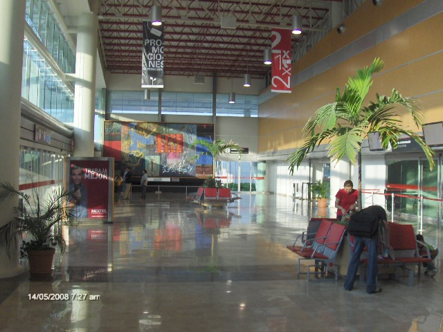 CULIACAN AIRPORT